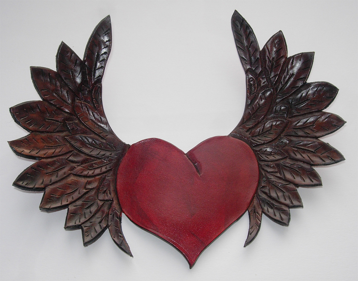 heart with wings